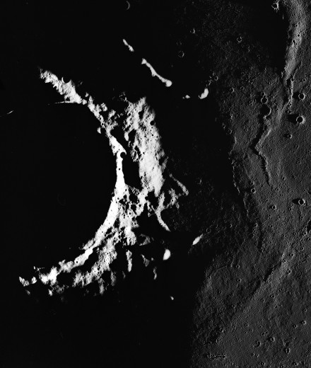 Briggs crater, at the lunar terminator. This is one of the last photos of the surface from Apollo 15 while still in orbit.